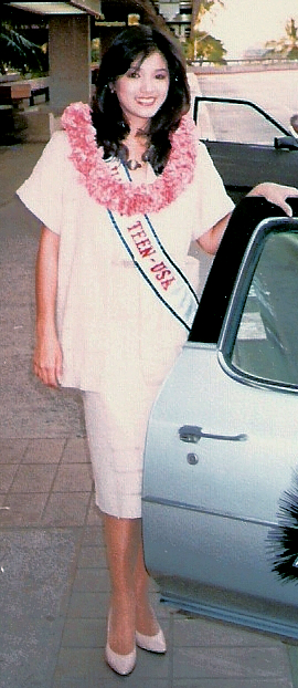 Kelly Hu when she was Miss Hawaii Teen USA 1985. She went on to become Miss Teen USA 1985, Miss Hawaii USA 1993 and a successful actress.